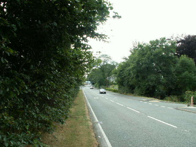 The A44 near Capel Bangor, Wales.